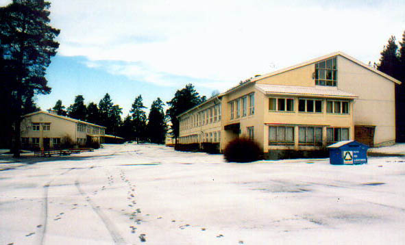 Prinsdal primary school